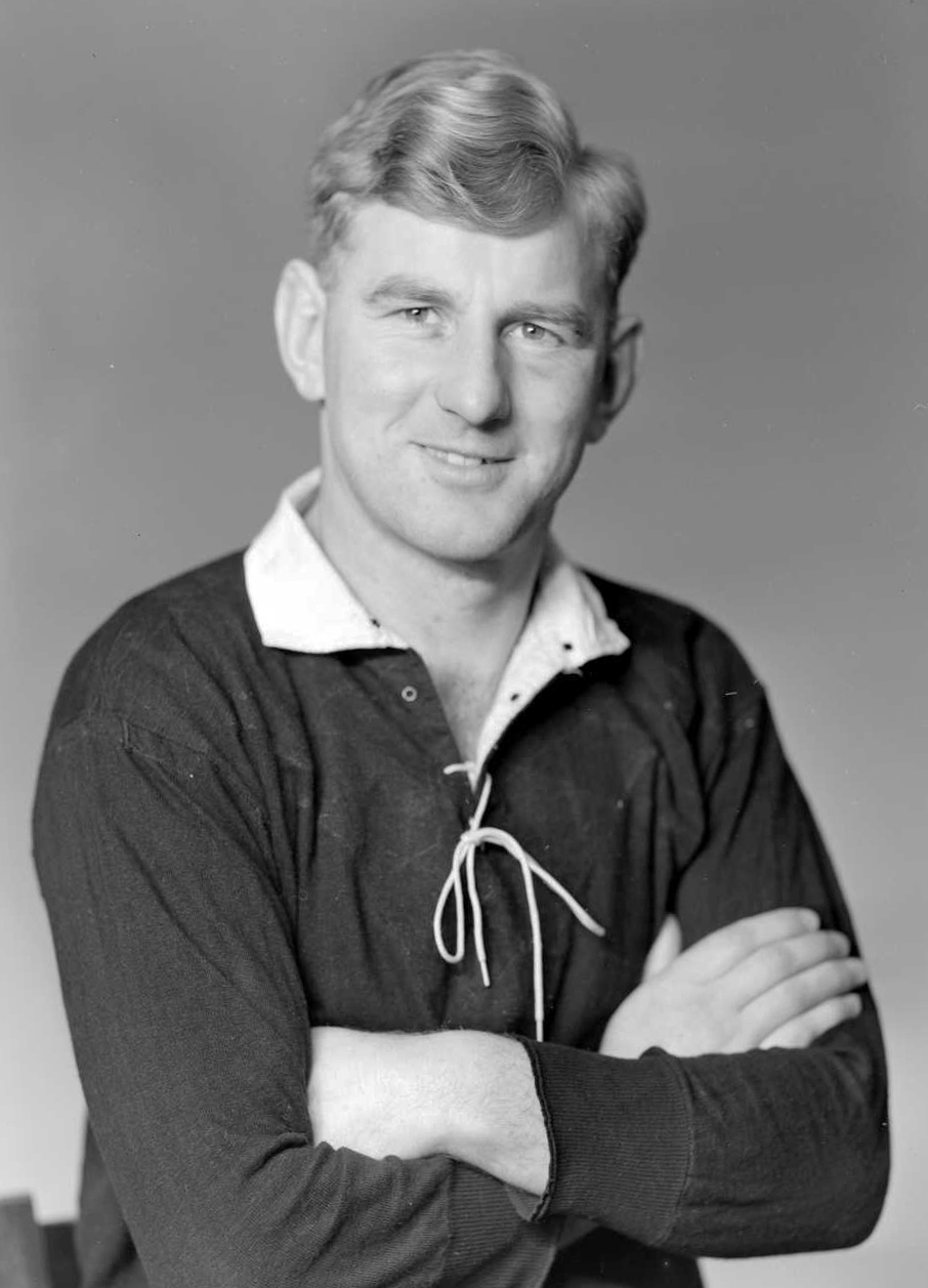 Photograph of rugby All Black trialist Norman Wilson, taken 1948 by Crown Studio Ltd of Wellington.